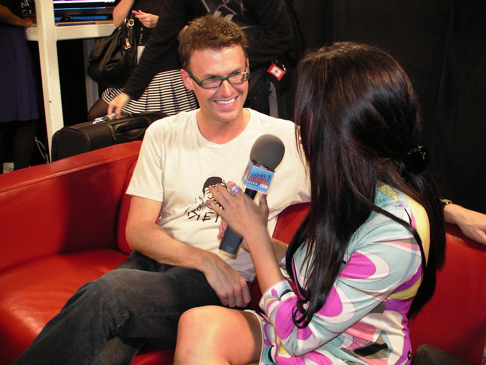 Barely Political's Amber Lee Ettinger (Obama Girl) interviews Michael Buckley (What the Buck)